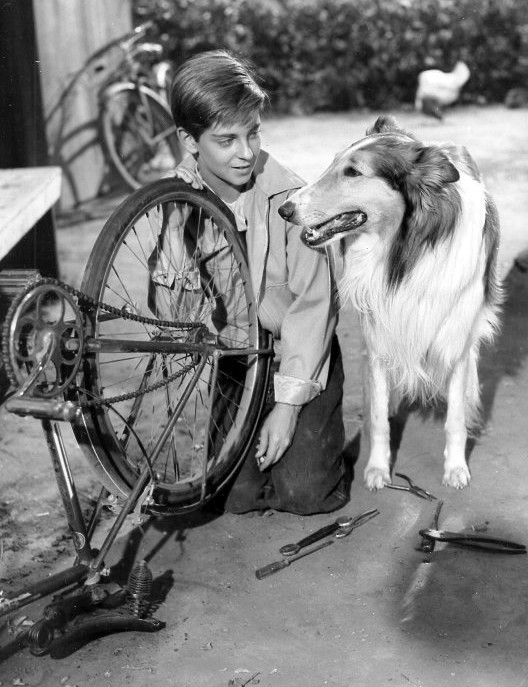 Photo from the television program Lassie. Lassie watches as Jeff (Tommy Rettig) works on his bike.